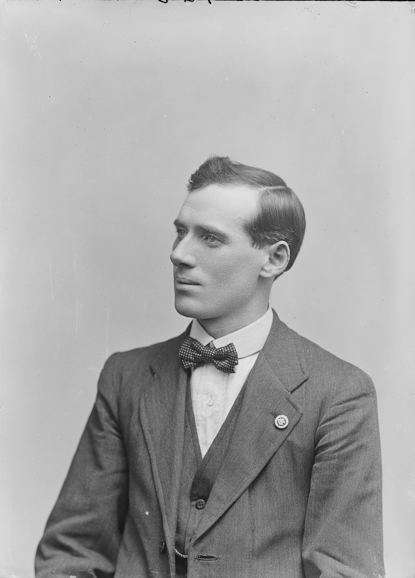 Cabinet commissioned by Mr. M.J. Staines M.P., 6 Harcourt St., Dublin A "cabinet" photograph of M. J. Staines M.P. from the Poole Collection to bring us back after the long Easter break. I am not sure what part he played in the Easter Rising but he was a significant figure thereafter and it is good to have him on an equally significant anniversary! I hope that you are all recovered from the overdose of chocolate that was about and are now fit and raring to go? While this particular Mary didn't know anything of Michael Staines (1885-1955) before today, it seems that he was one of life's natural administrators. The quartermaster of the GPO garrison during the Rising, he was commandant to the prisoners in the internment camps that followed. Later involved in administering the New Ireland Assurance Collecting Society, and seemingly involved with the Irish Clerical Workers Union, he became the first Garda Commissioner in 1922. While perhaps not "front of house" in the early days of the state, it seems he held critical (if perhaps somewhat clerical) roles in its formation and function.... Photographer: A. H. Poole Collection: Poole Photographic Studio, Waterford Date: c.1918 NLI Ref: POOLED 5740